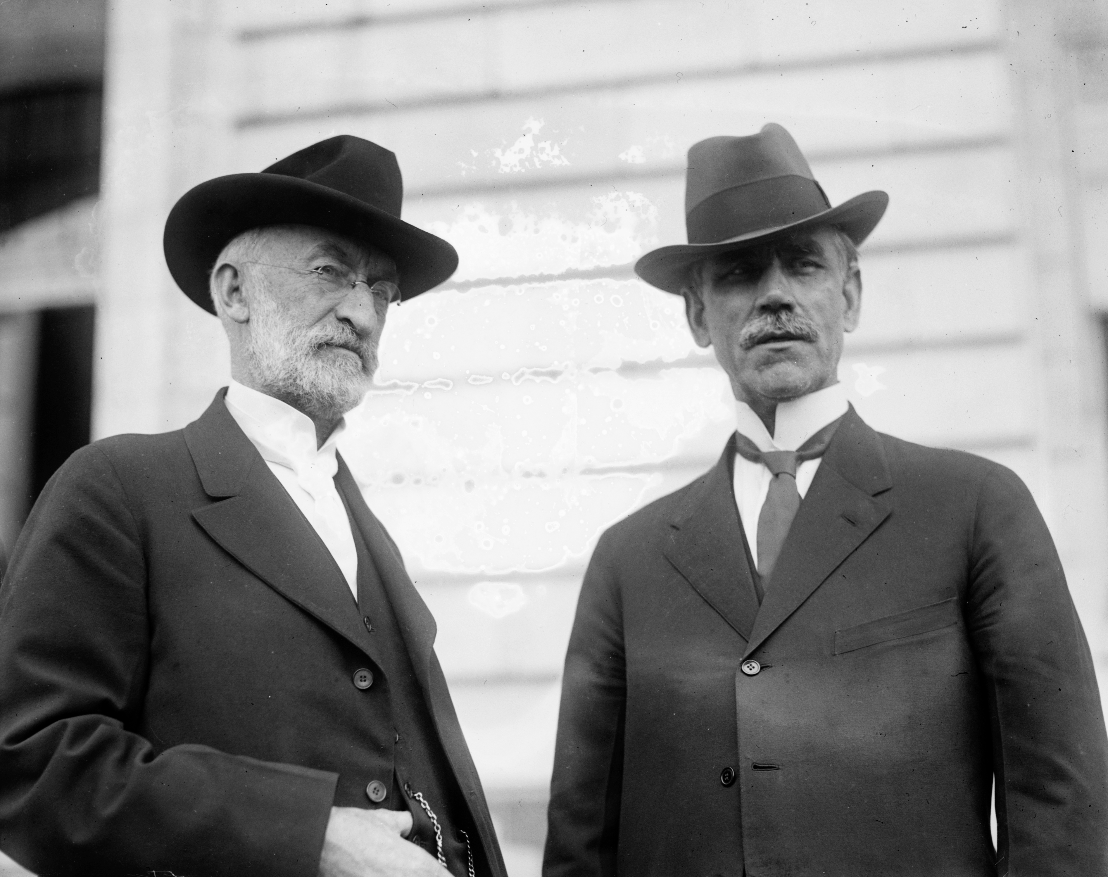 Heber J. Grant and Reed Smoot.